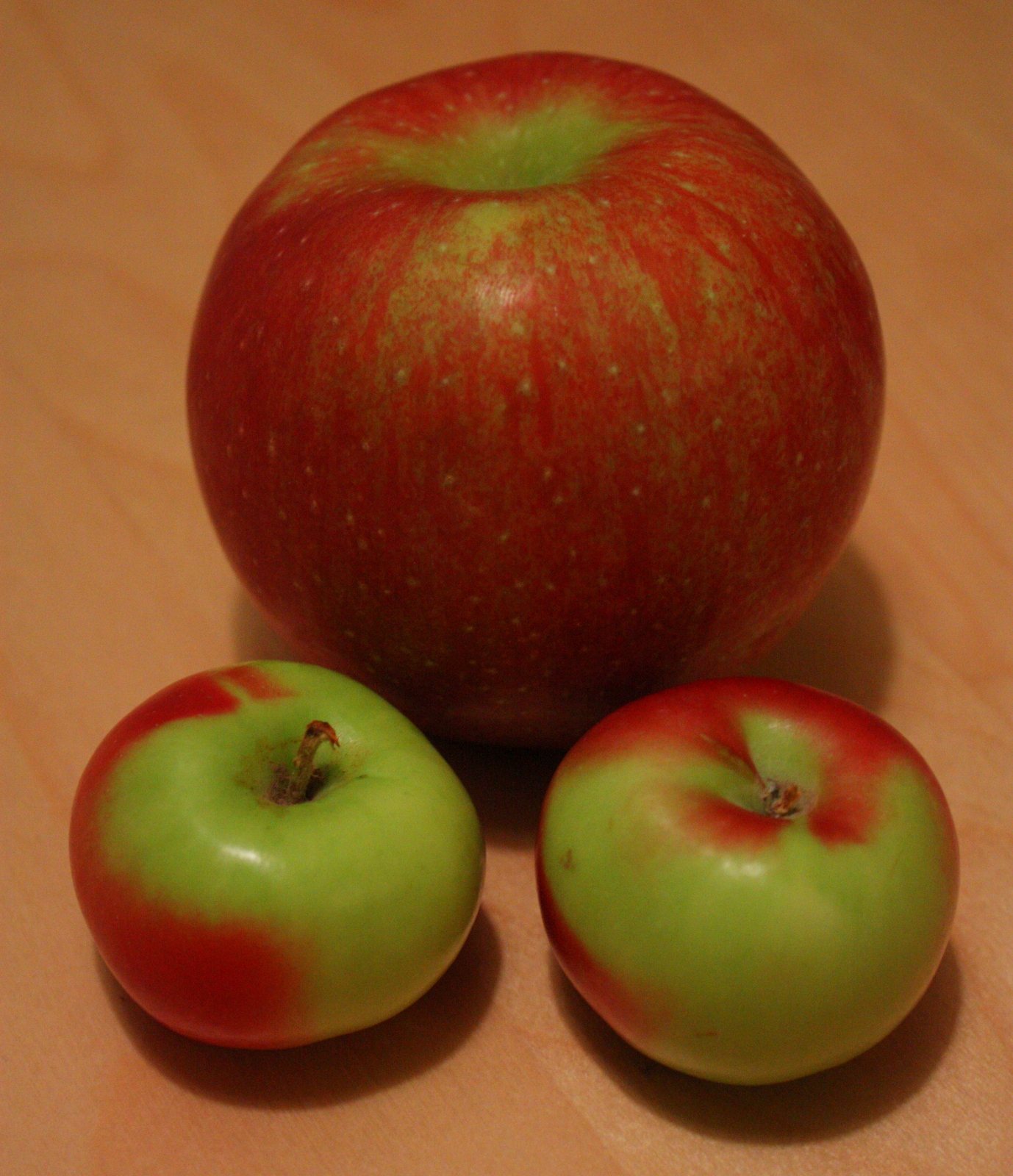 Everyone thought the "Lady" apples were Pink Lady apples, but actually they are these little ones that are as adorable as they are flavorful.